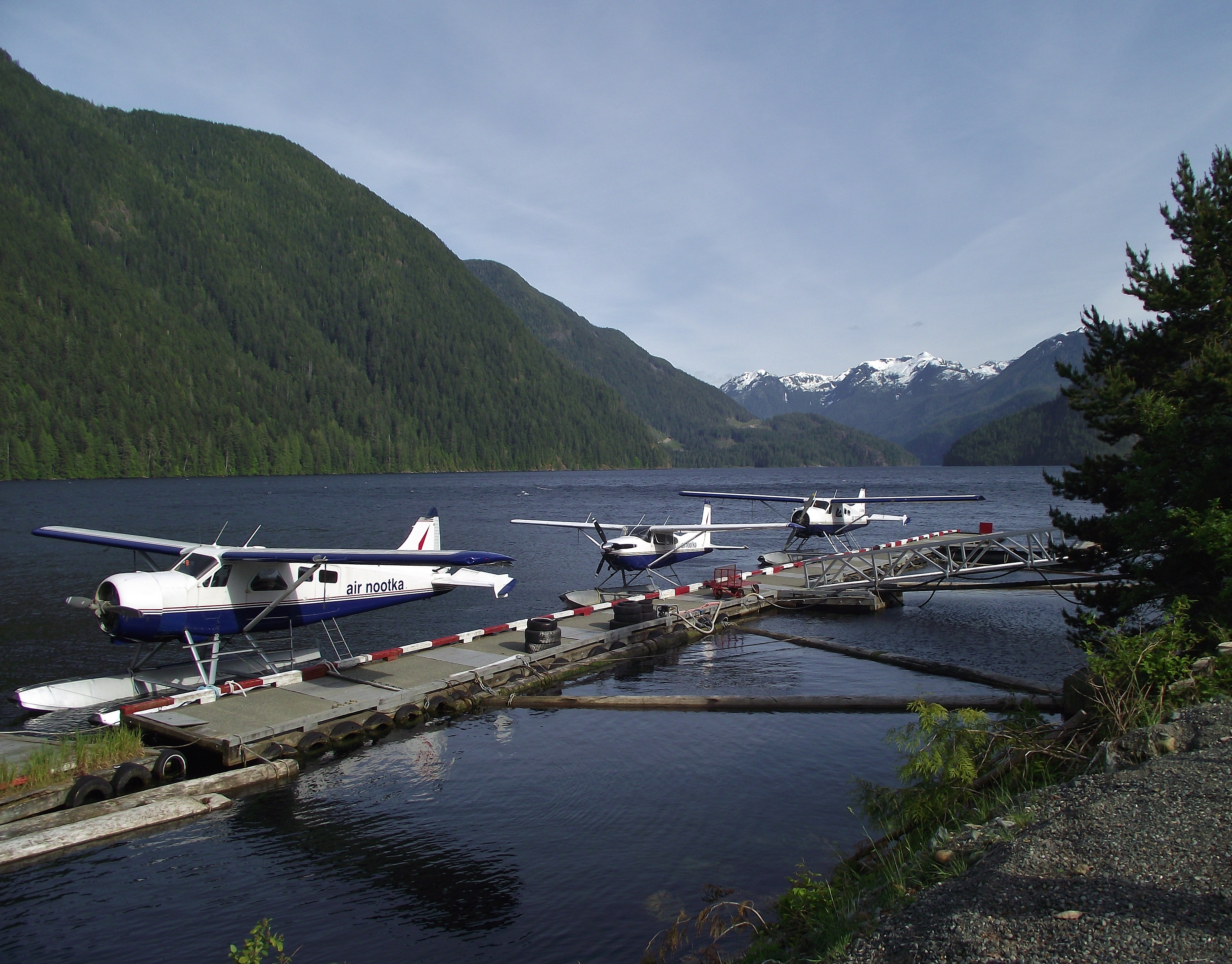 A view of Muchalat Inlet of Nootka Sound, Vancouver Island, British Columbia